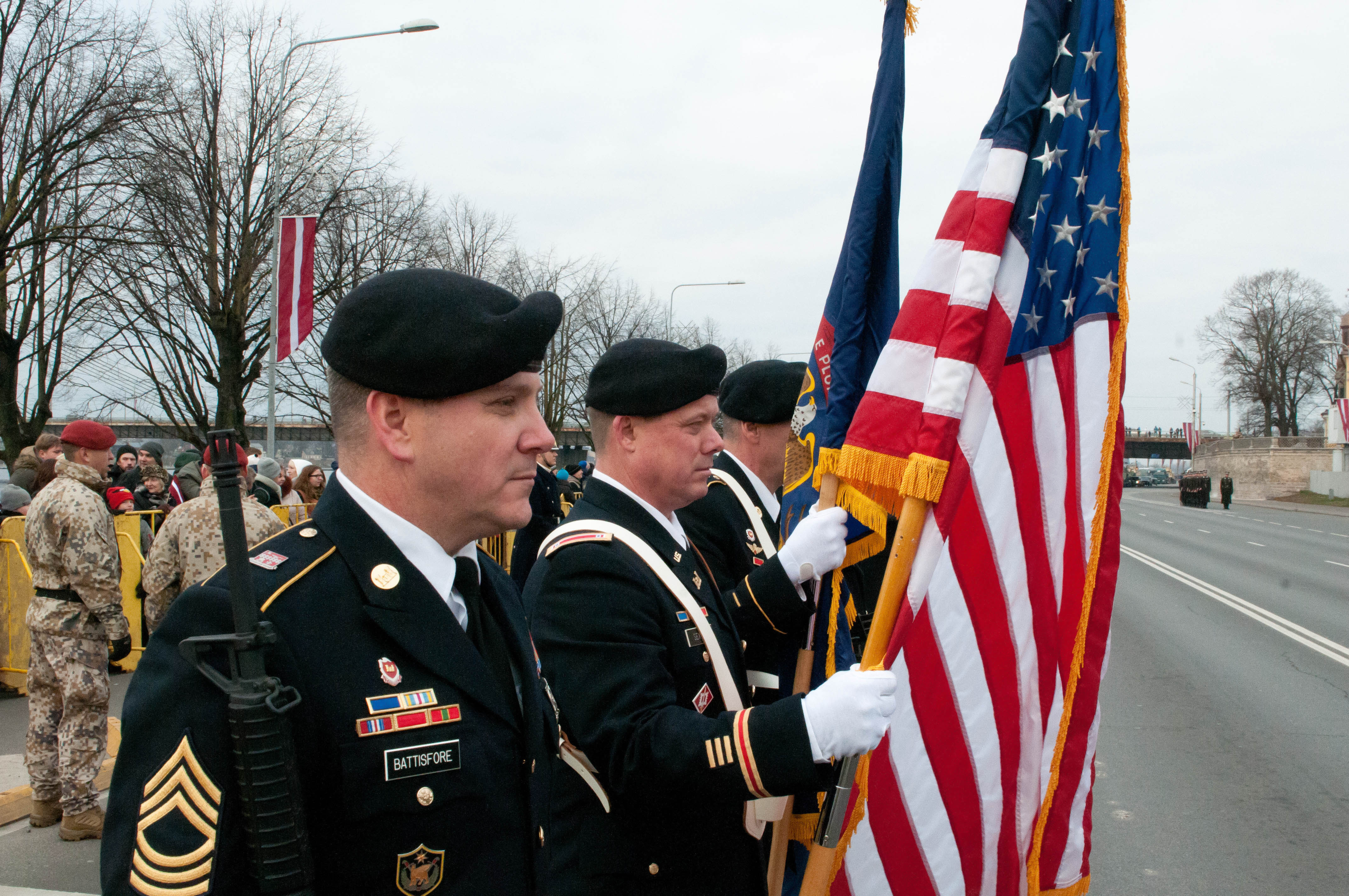 Members of the Michigan National Guard serve as the color guard for the U.S. during the Latvia Day parade in Riga, Latvia, on November 18, 2014. Michigan guardsmen have maintained a relationship for more than 20 years with the country of Latvia. Norwegian and U.S. forces marched in the parade as a show of solidarity for their Latvian brothers-in-arms. (U.S. Army photo by Staff Sgt. Kenneth C. Upsall)